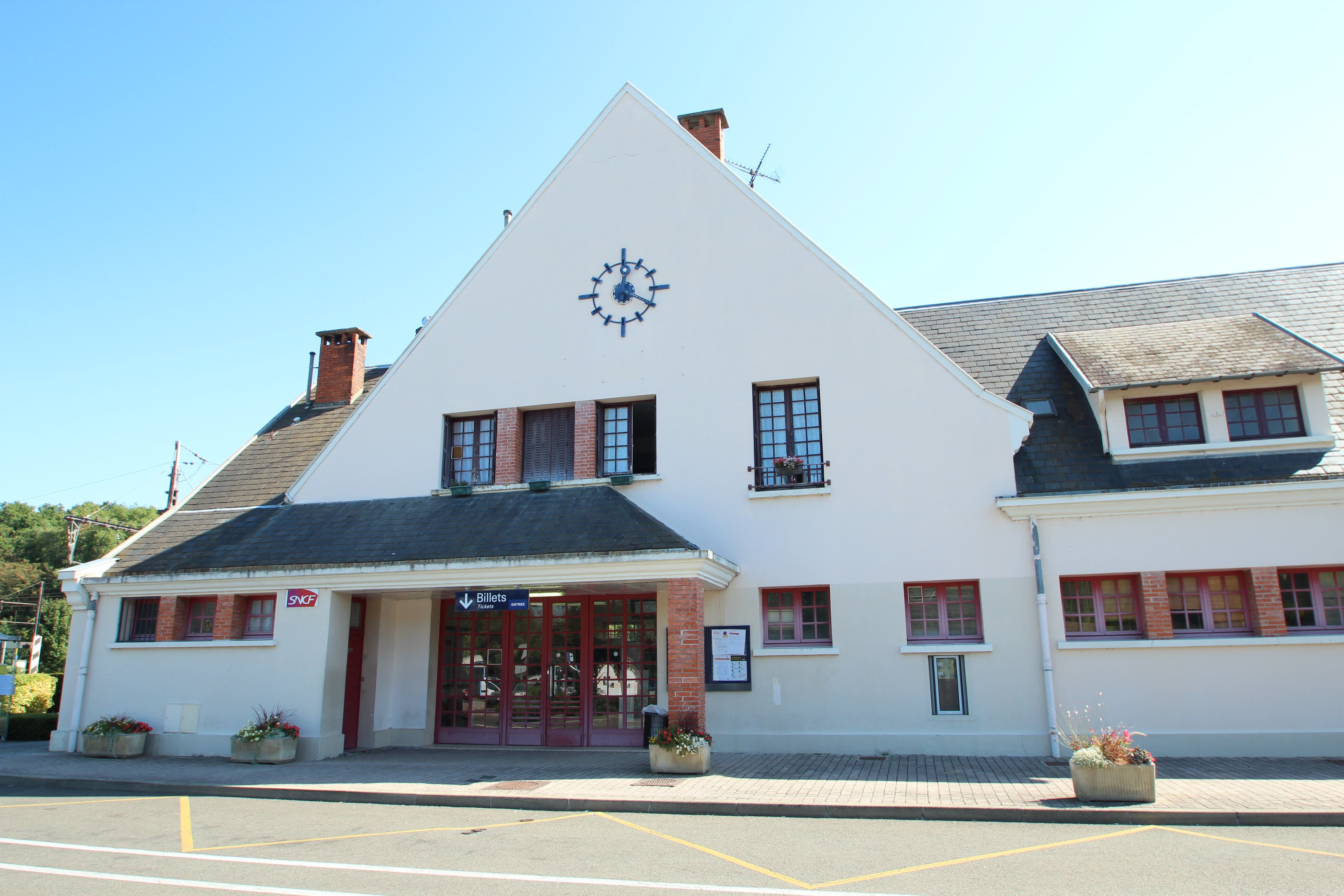 Train station of Maintenon, France. Object location48° 35′ 07.37″ N, 1° 35′ 32.28″ E This image was uploaded as part of L'Été des villes 2015.